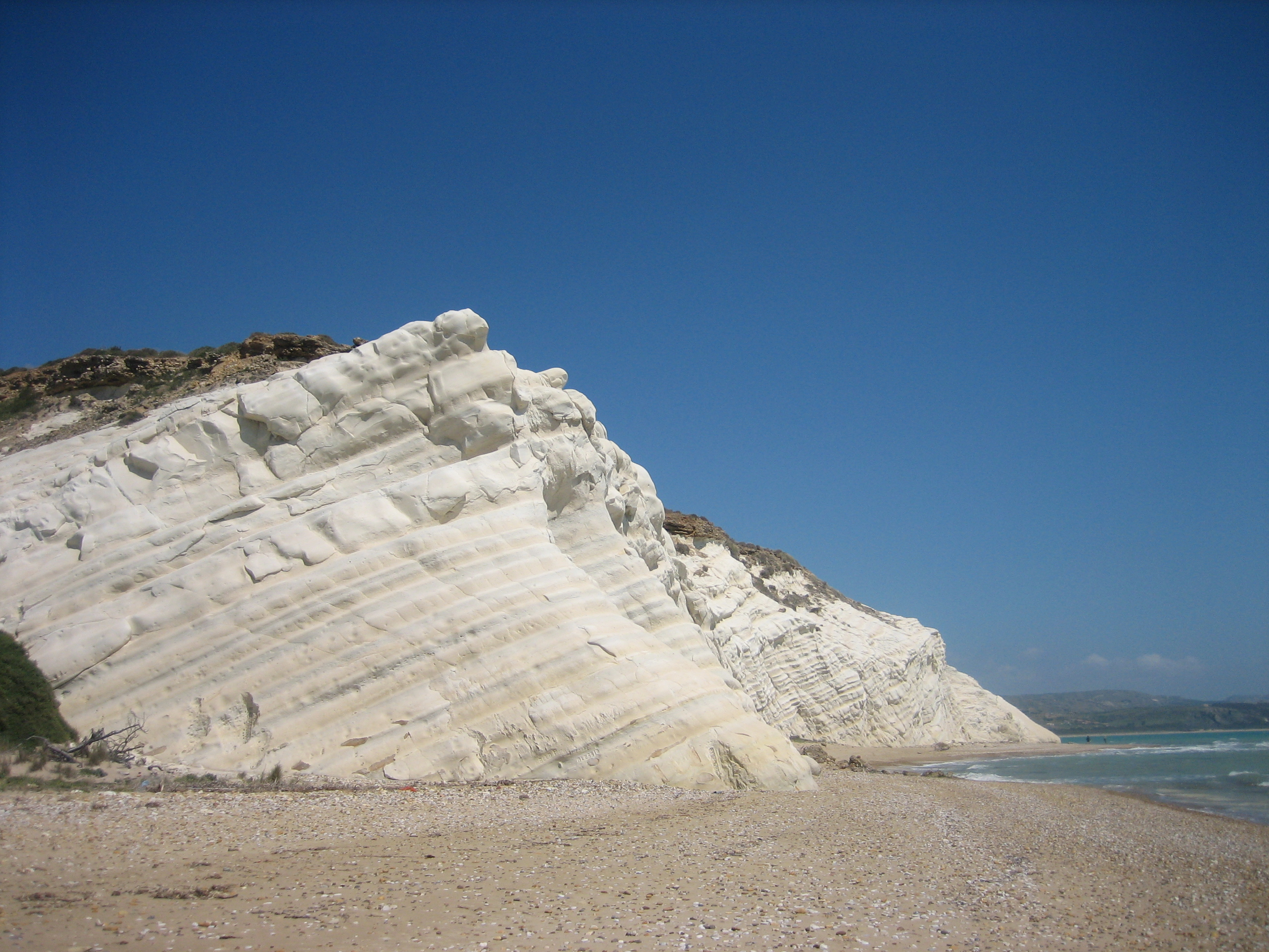 Gypsum formation od Capo Bianco at the mouth of river Platani, Sicily